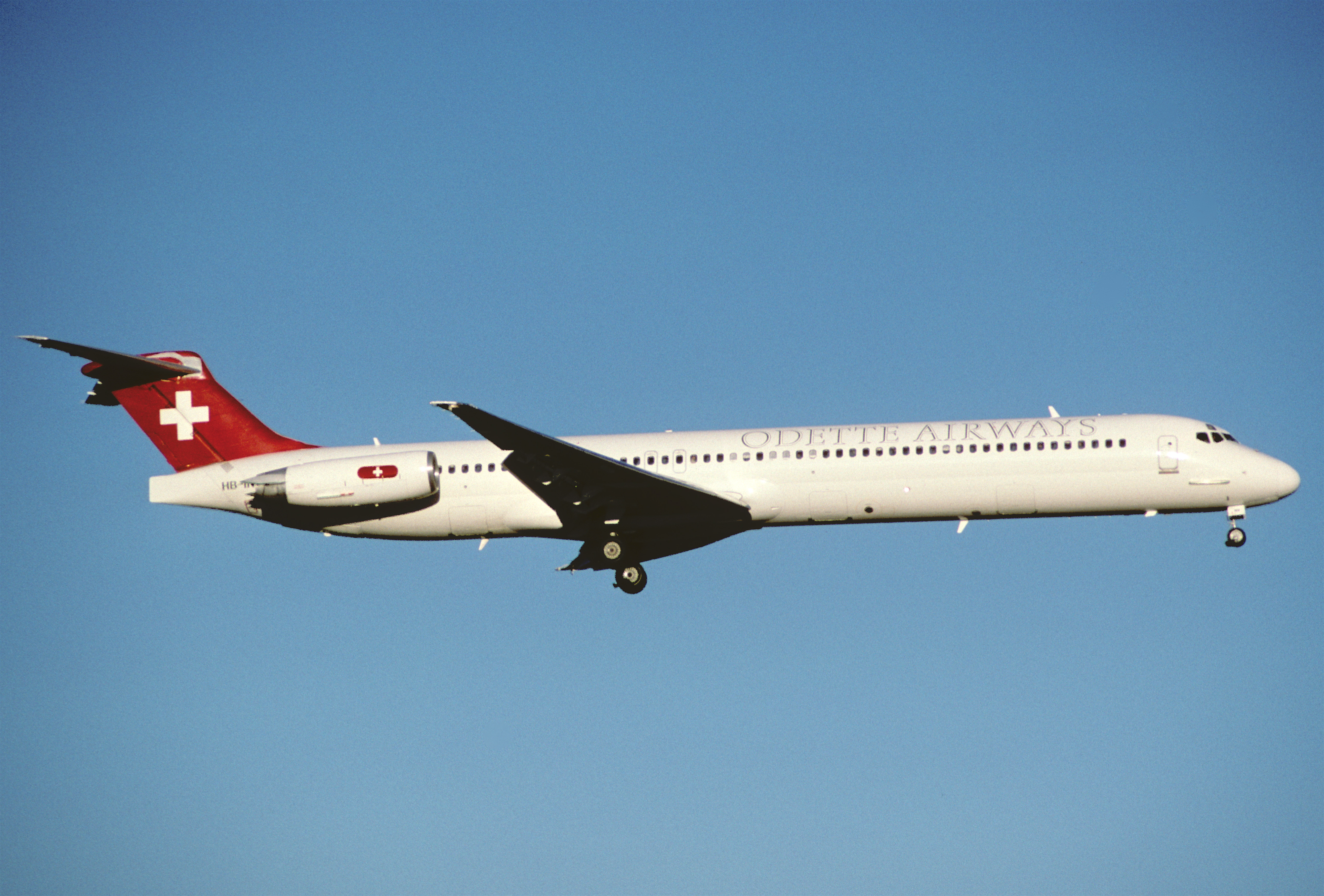 268cl - Odette Airways MD-83; HB-INV@ZRH;07.12.2003